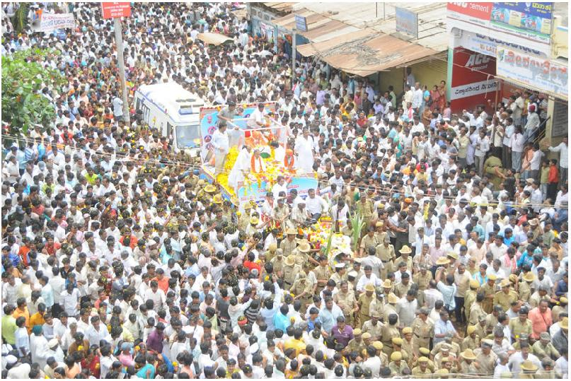 Antim Yatra of Pt.Puttaraj Gawai'ji